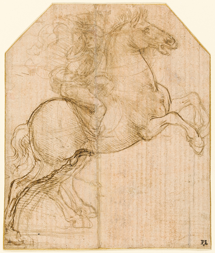 en: Study for the Adoration of Magi pl: Studium do Pokłonu Trzech Króli